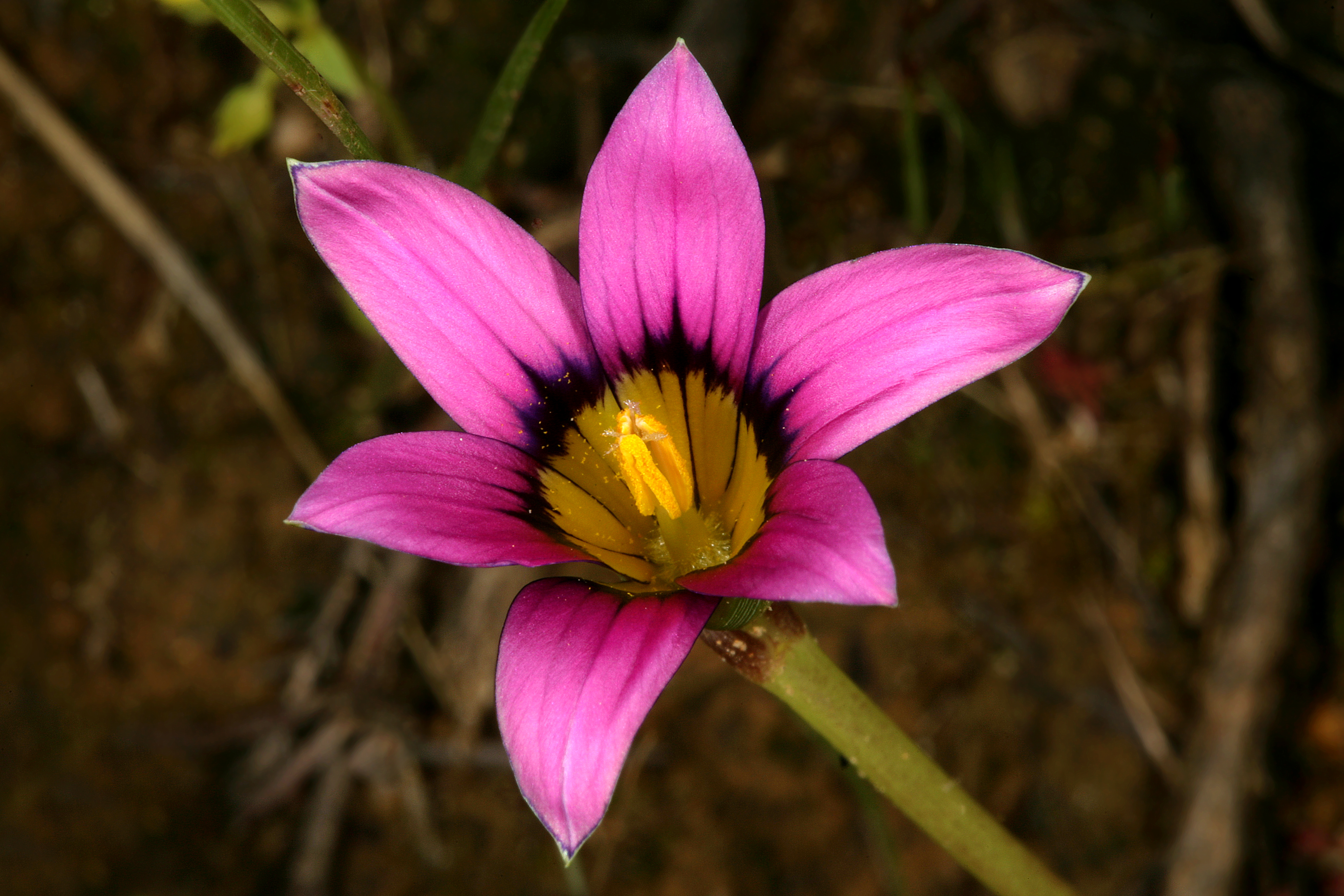 Romulea rosea, flower; Paarlberg Nature Reserve, Paarl, Western Cape, South Africa